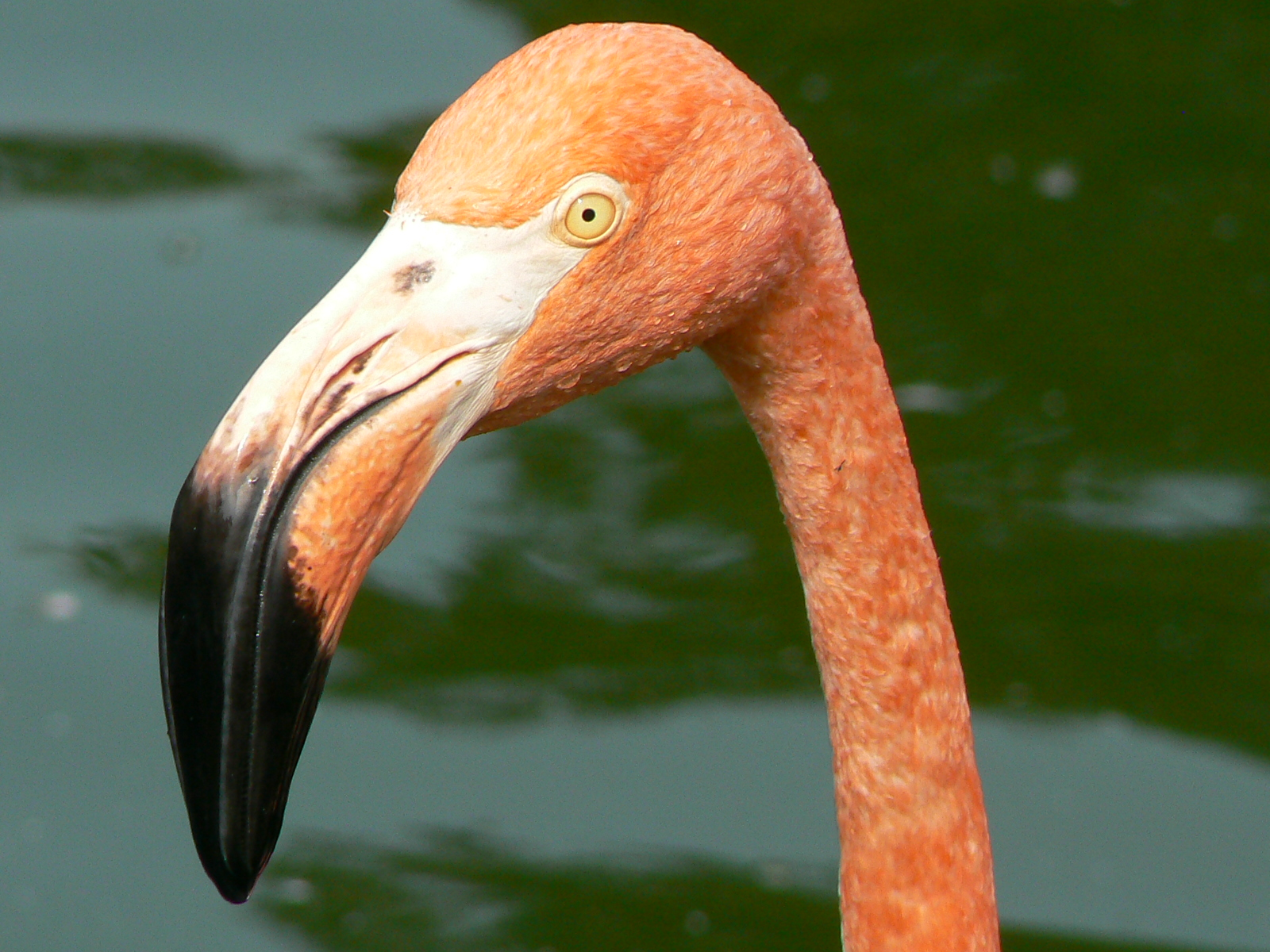 Flamingo Phoenicopterus ruber at Hamburg Zoo, Germany.